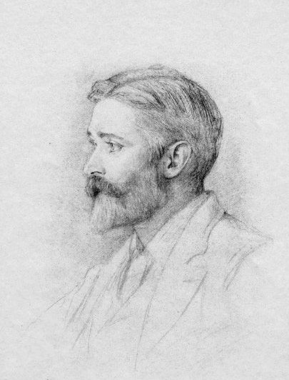 Portrait of Henry John Brinsley Manners, 8th Duke of Rutland